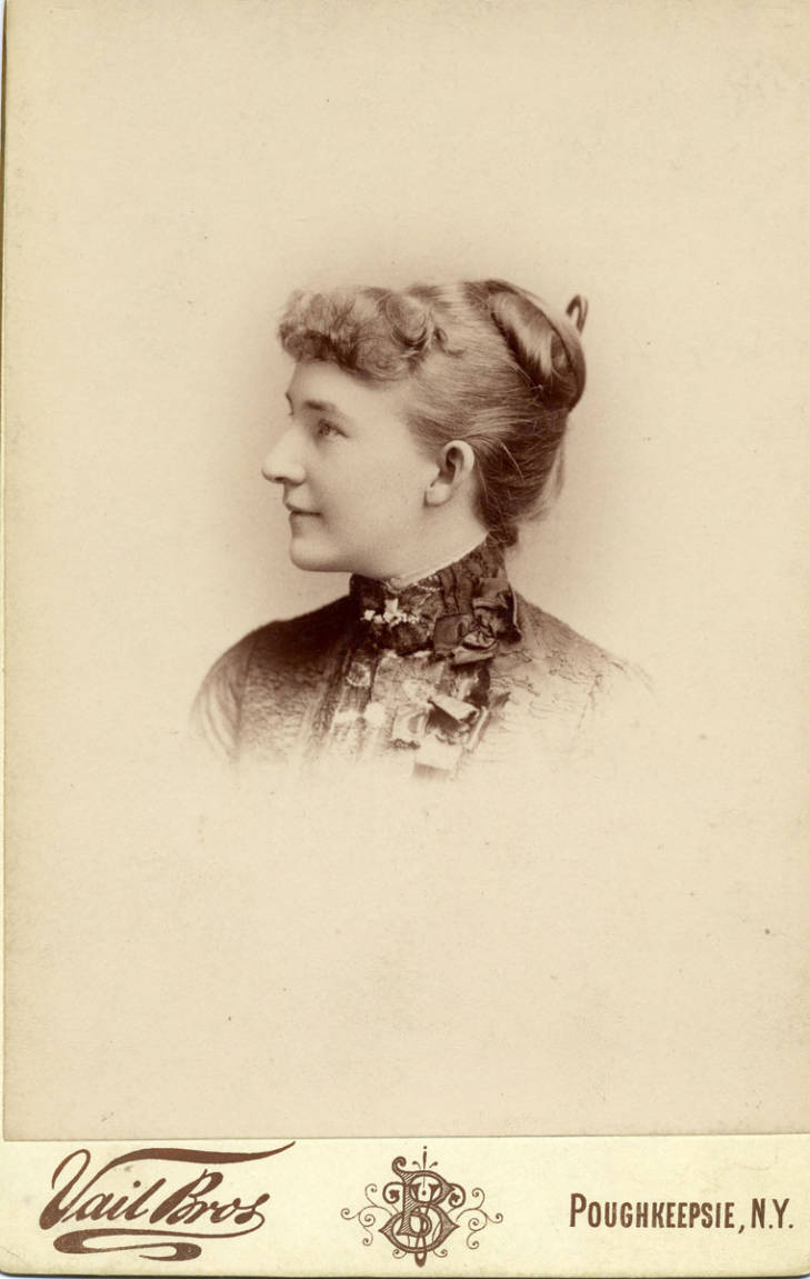 Adelaide Underhill, side profile